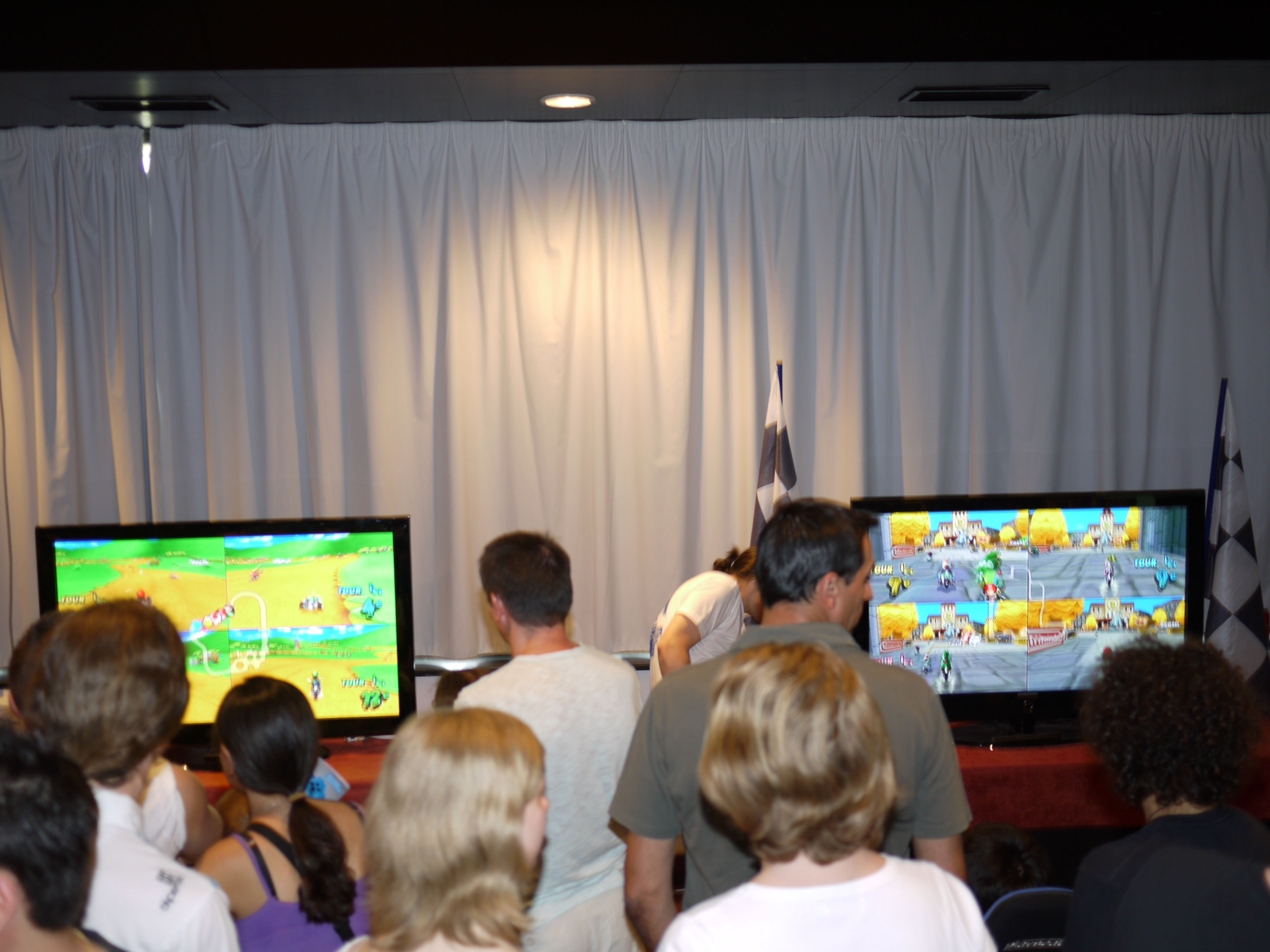 Montpellier in Game Festival 2010